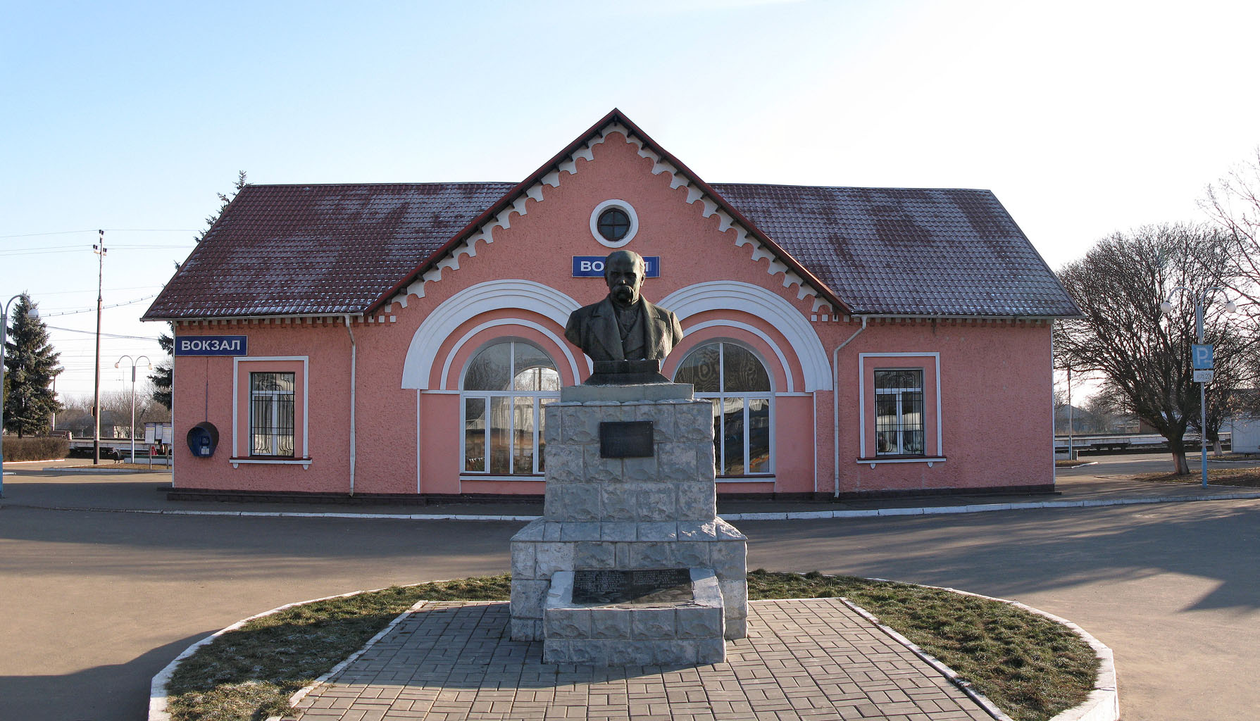 Nosivka railway station, South-Western Railway, Ukraine.